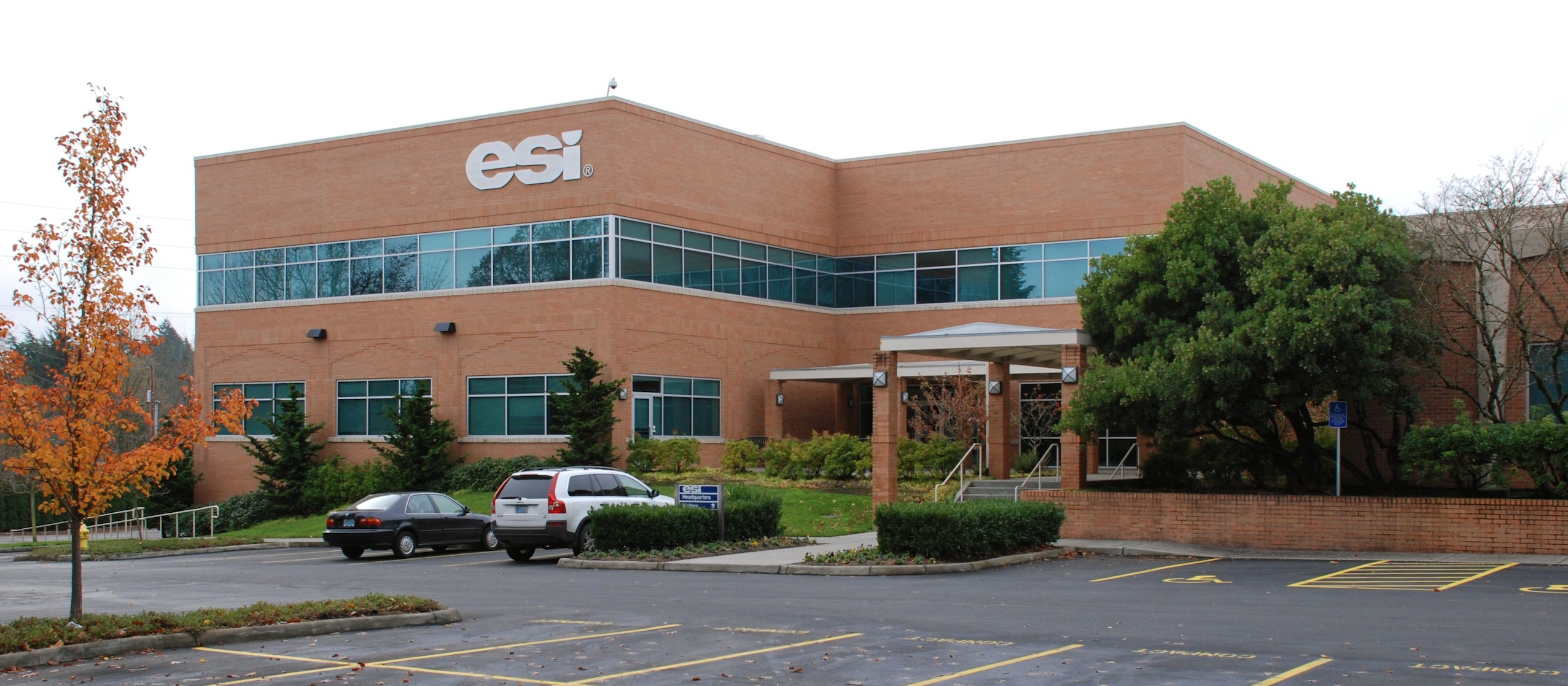 The headquarters and main campus of Electro Scientific Industries, located in the Cedar Mill area of Washington County, Oregon, in the Portland metropolitan area.